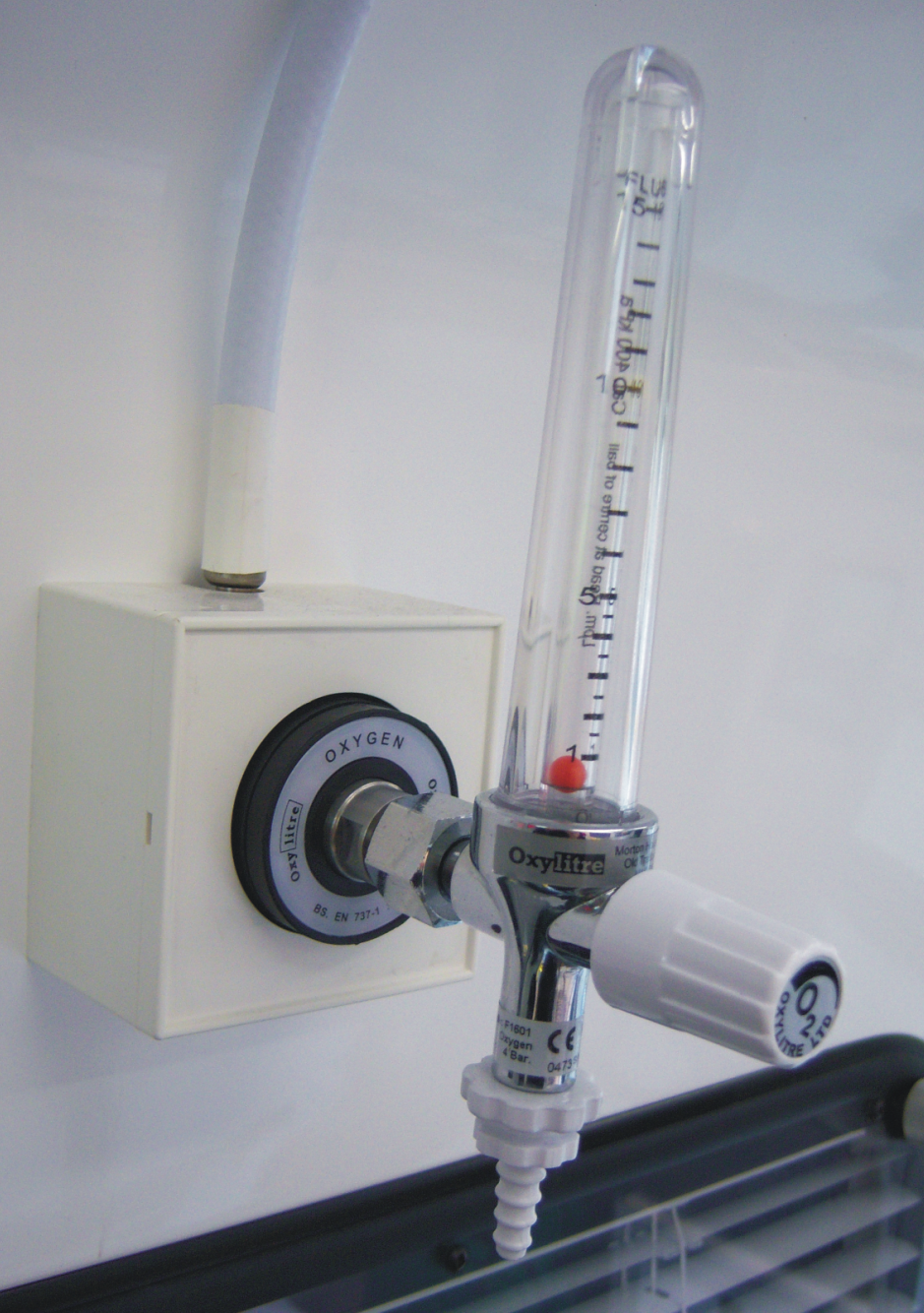 Oxygen piping and regulator on the wall of an ambulance